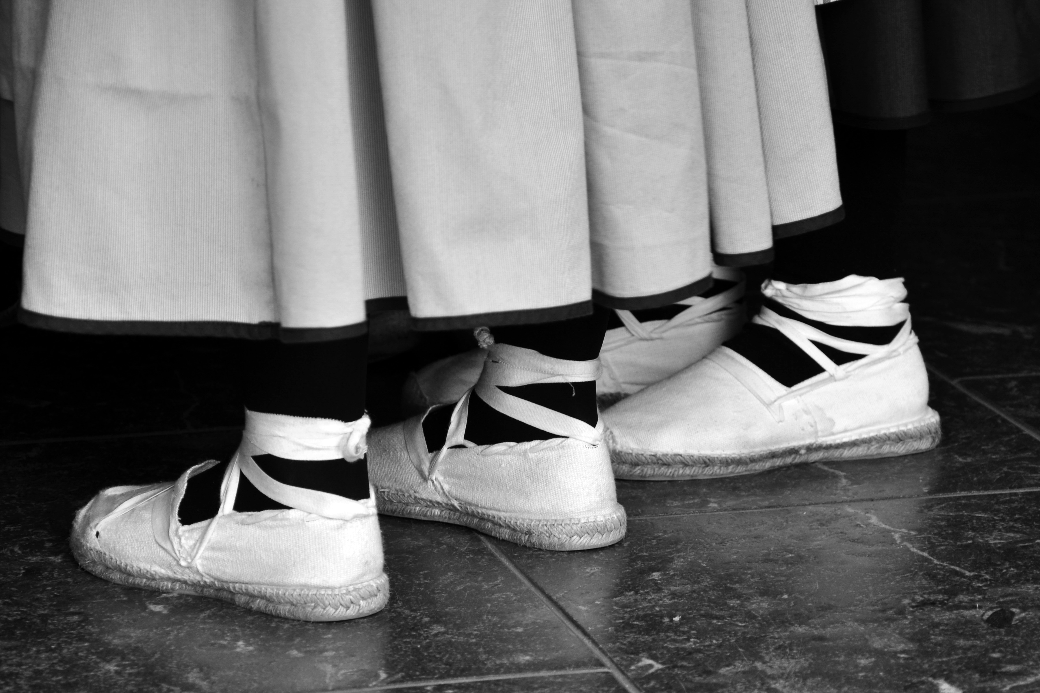 Espadrilles